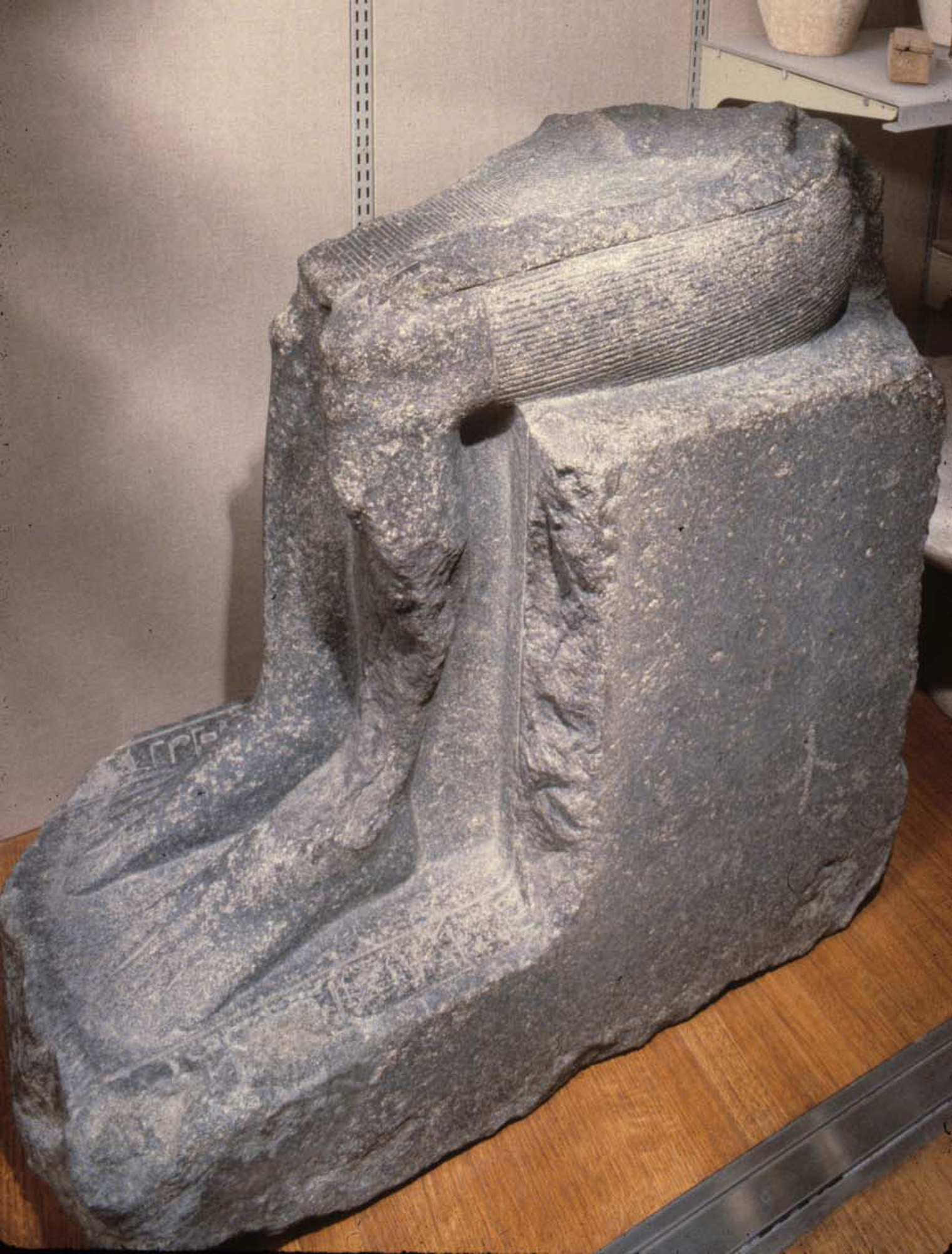 Statue, lower half